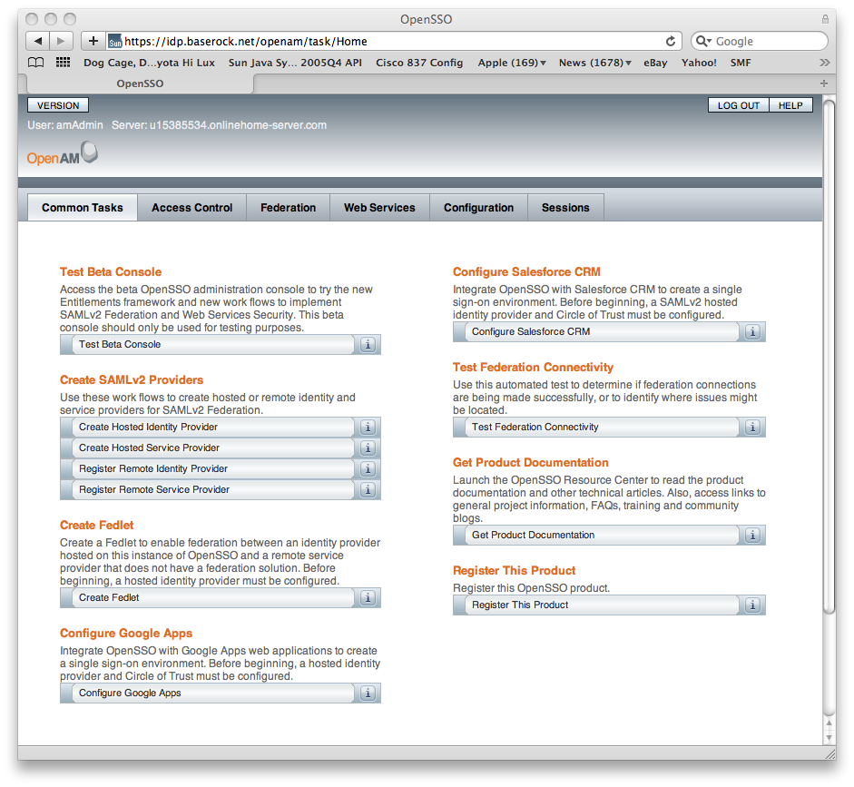 OpenAM Console